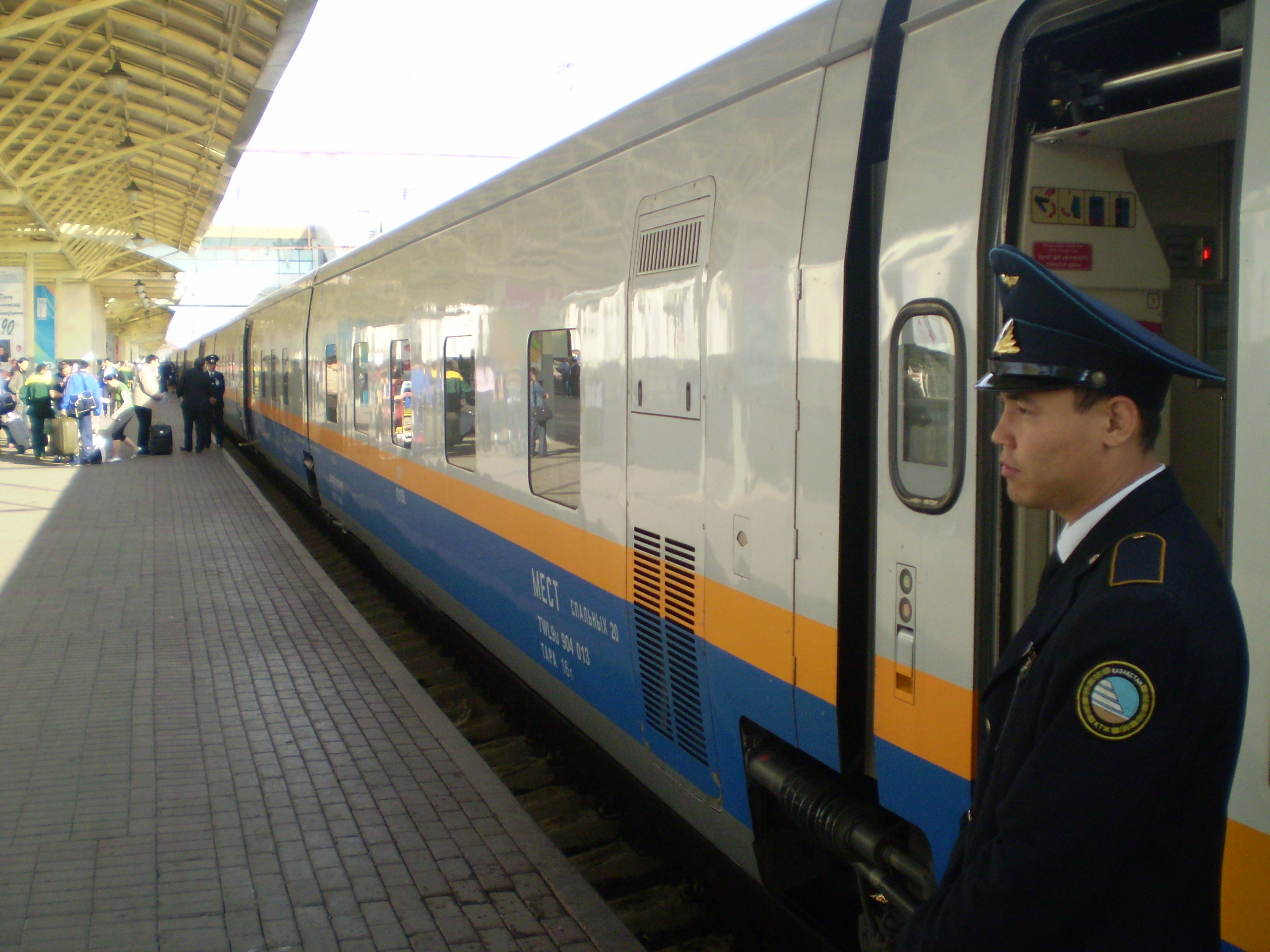 Talgo 200 Tulpar train, Nur-Sultan rail terminal. 2009. Kazakhstan